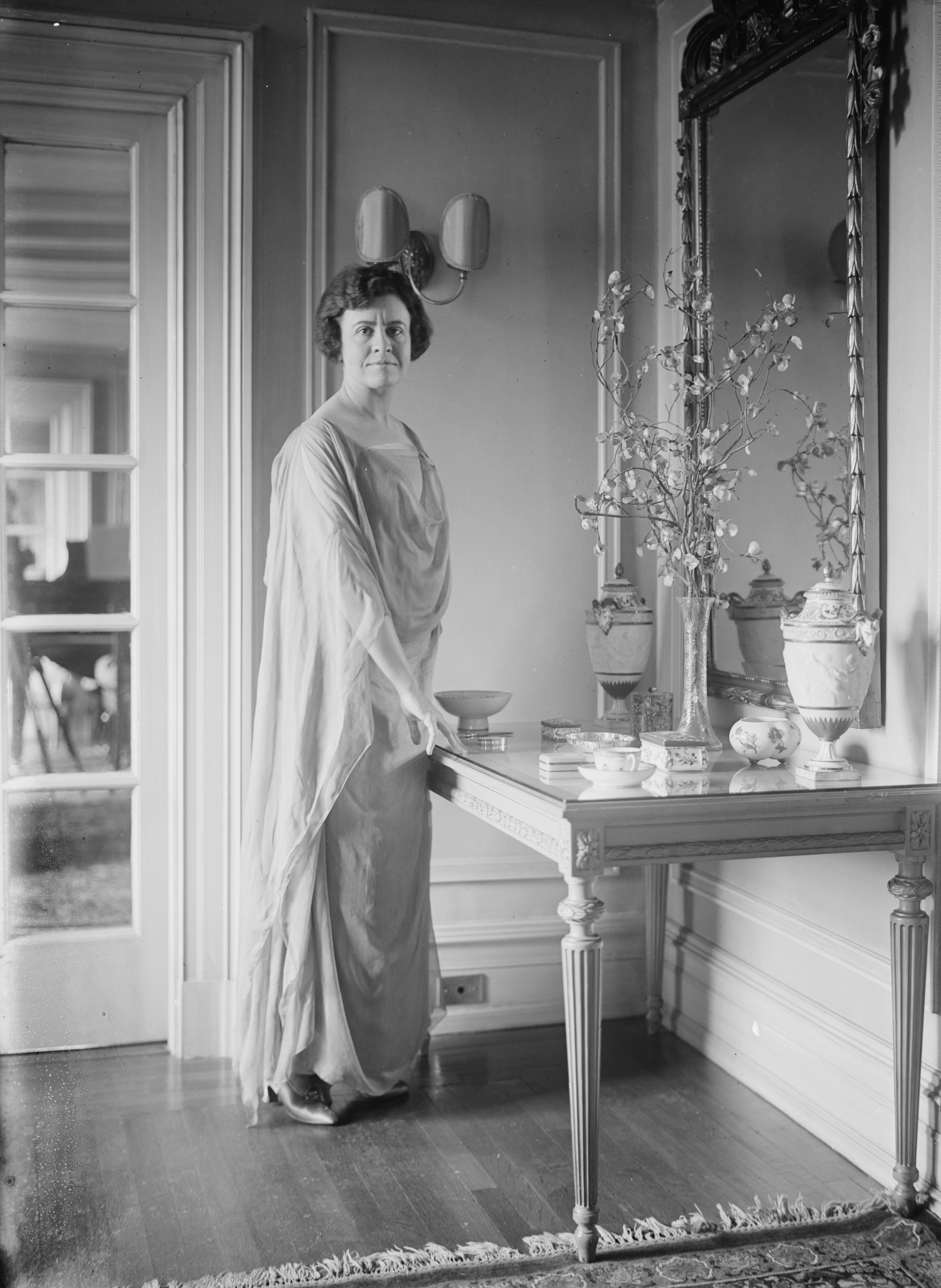 Olga Samaroff (1880 – 1948), American pianist, music critic, and teacher